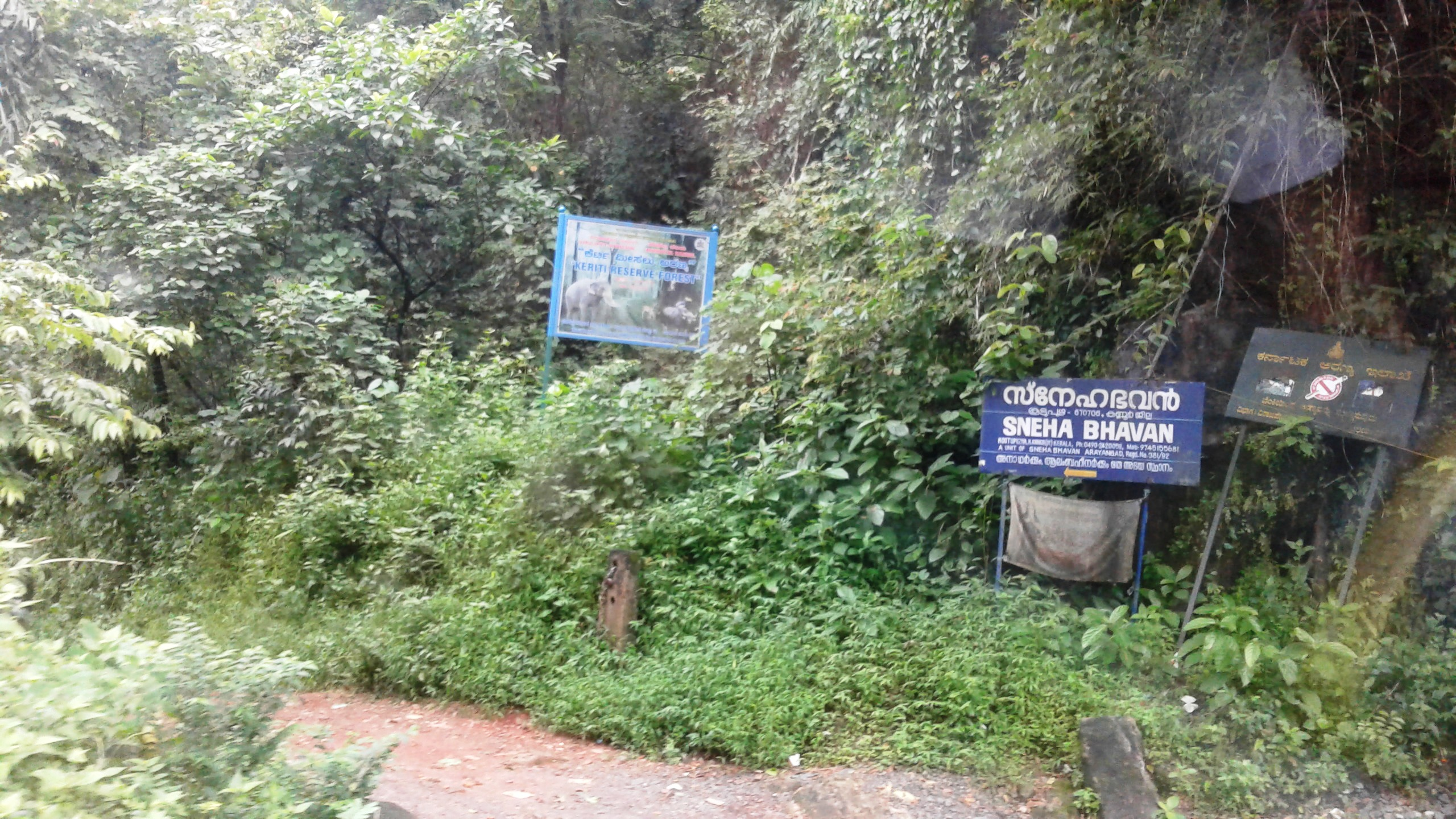 This picture was taken from the bridge separating Kerala and Karnataka. Locationː Koottupuzha town, Kannur district, Kerala state, India.Kannur district, Kerala state, India.